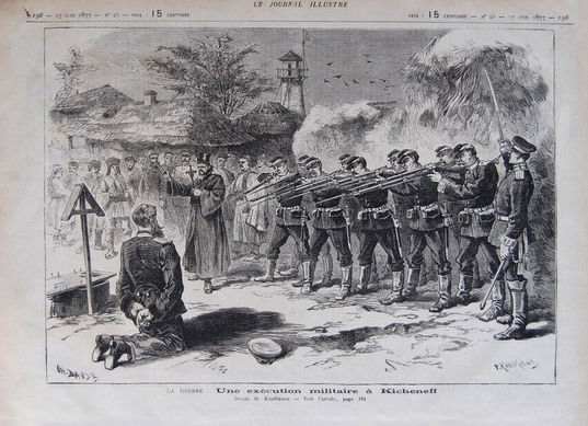 Russian officer executed 1877 in Bessarabia, during the russian-turkish war.